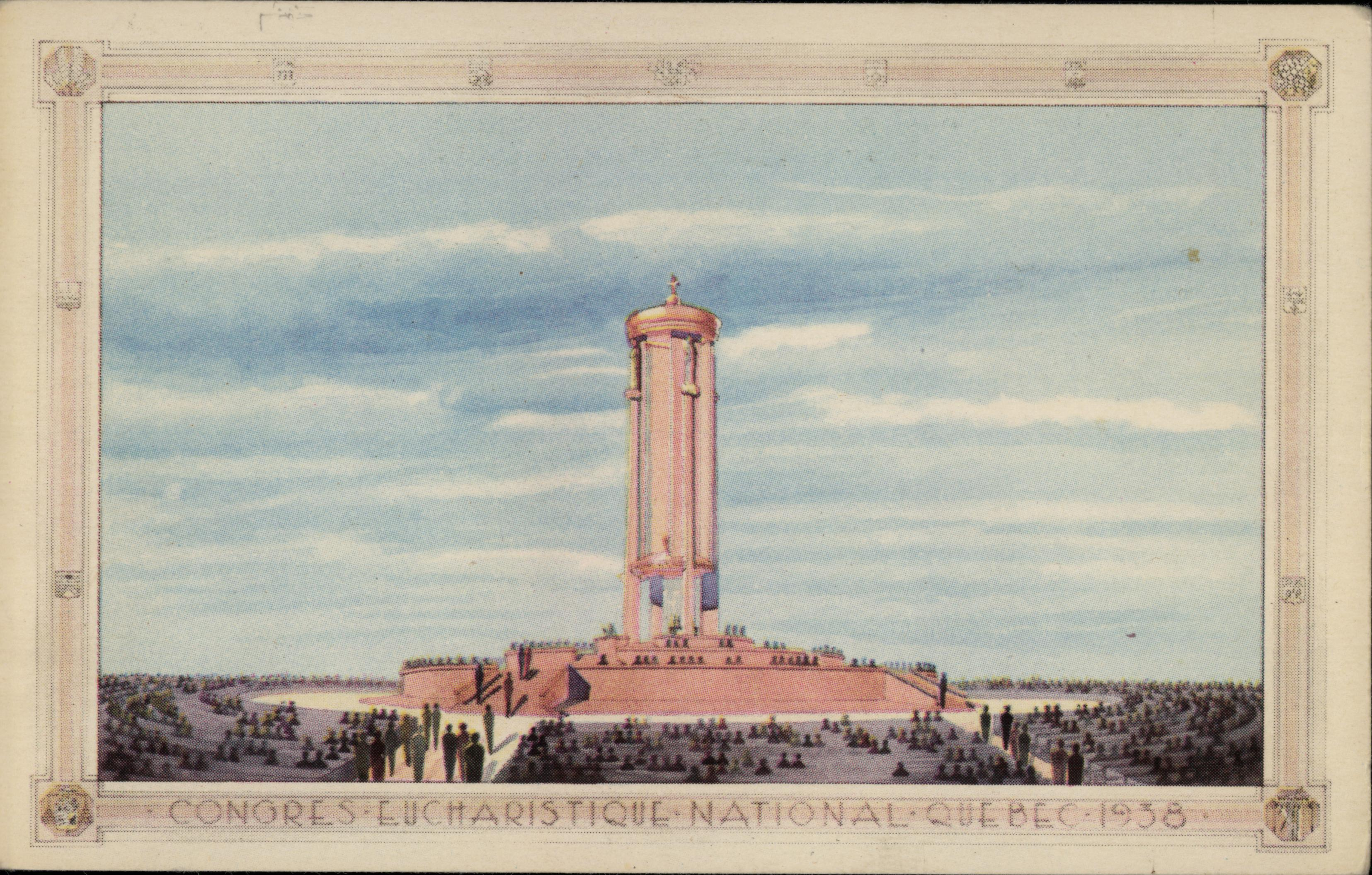 National Eucharistic Congress, Quebec, June 22-26th, 1938, view of Congress Altar erected at Battlefields Park